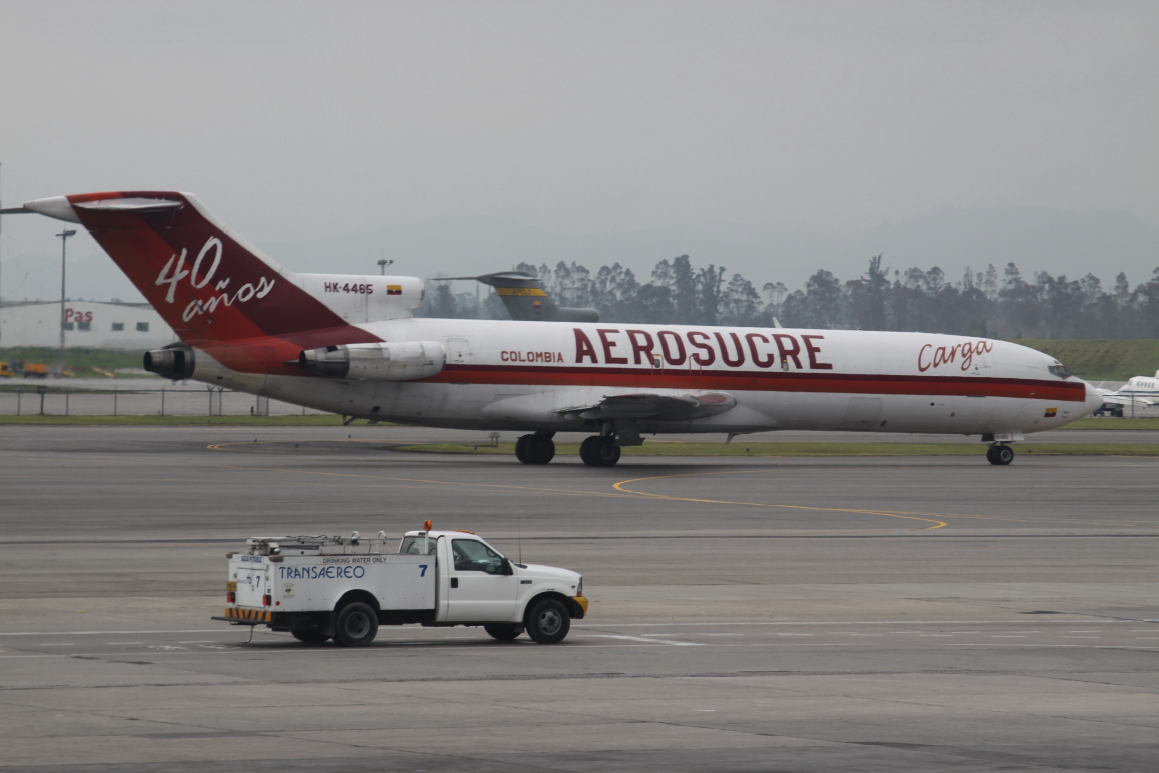 At Bogota El Dorado International